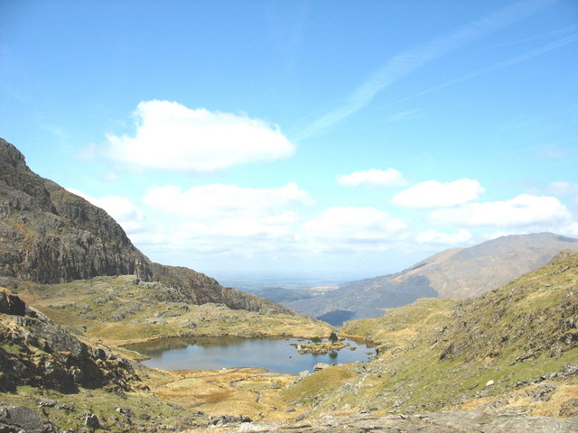 Llyn Glas. My favourite of all the 250 lakes in Snowdonia. Perched on the edge of an abyss and enclosed by the sheer rocky ramparts of Grib Goch and Crib y Ddysgl, it is, most days of the year, a place of solitude. Not even the noise of the traffic below in the Llanberis Pass penetrates here.